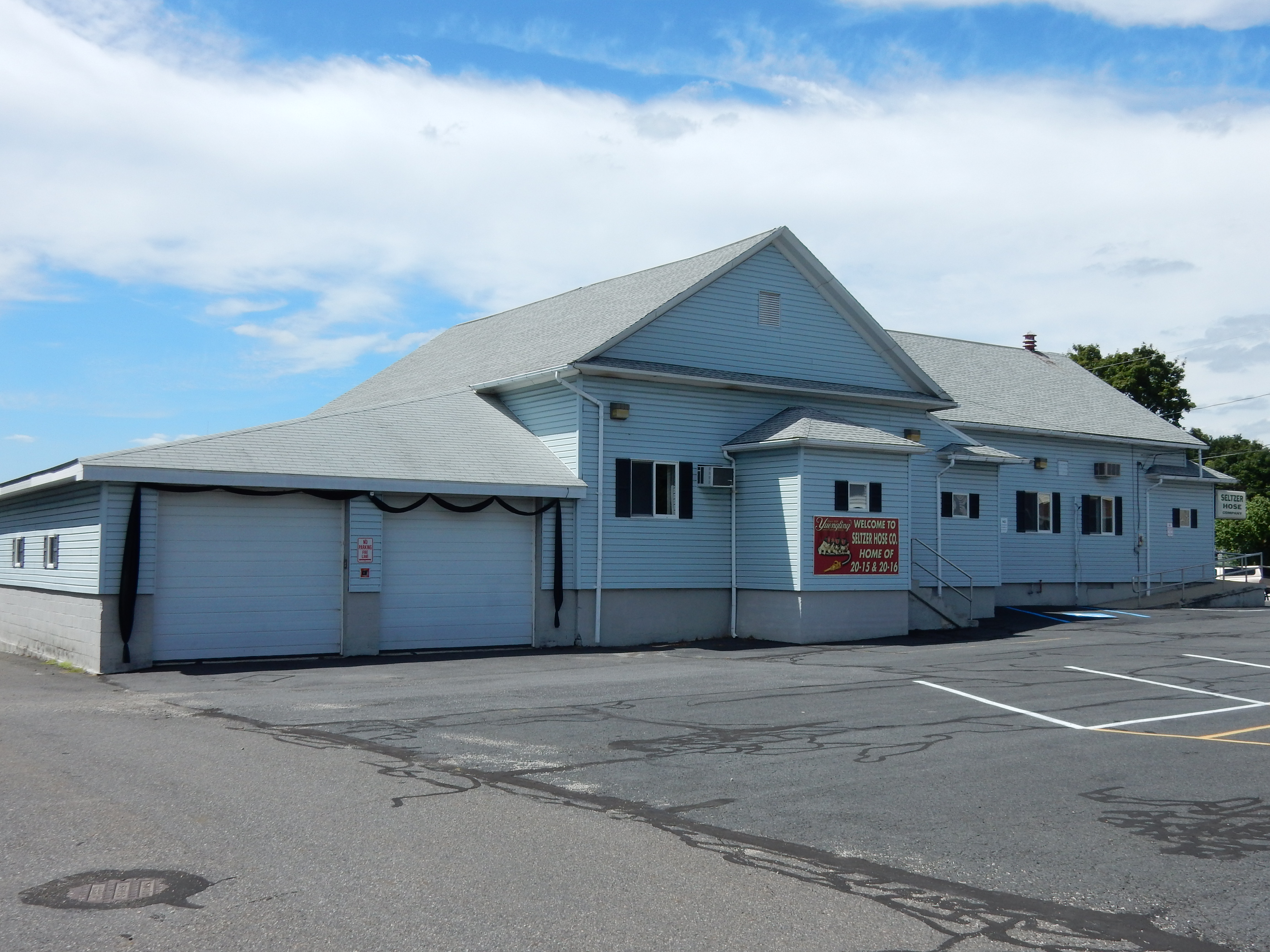 Seltzer Hose Co., 320 Main St., Seltzer, Norwegian Township, Schuylkill County, Pennsylvania.